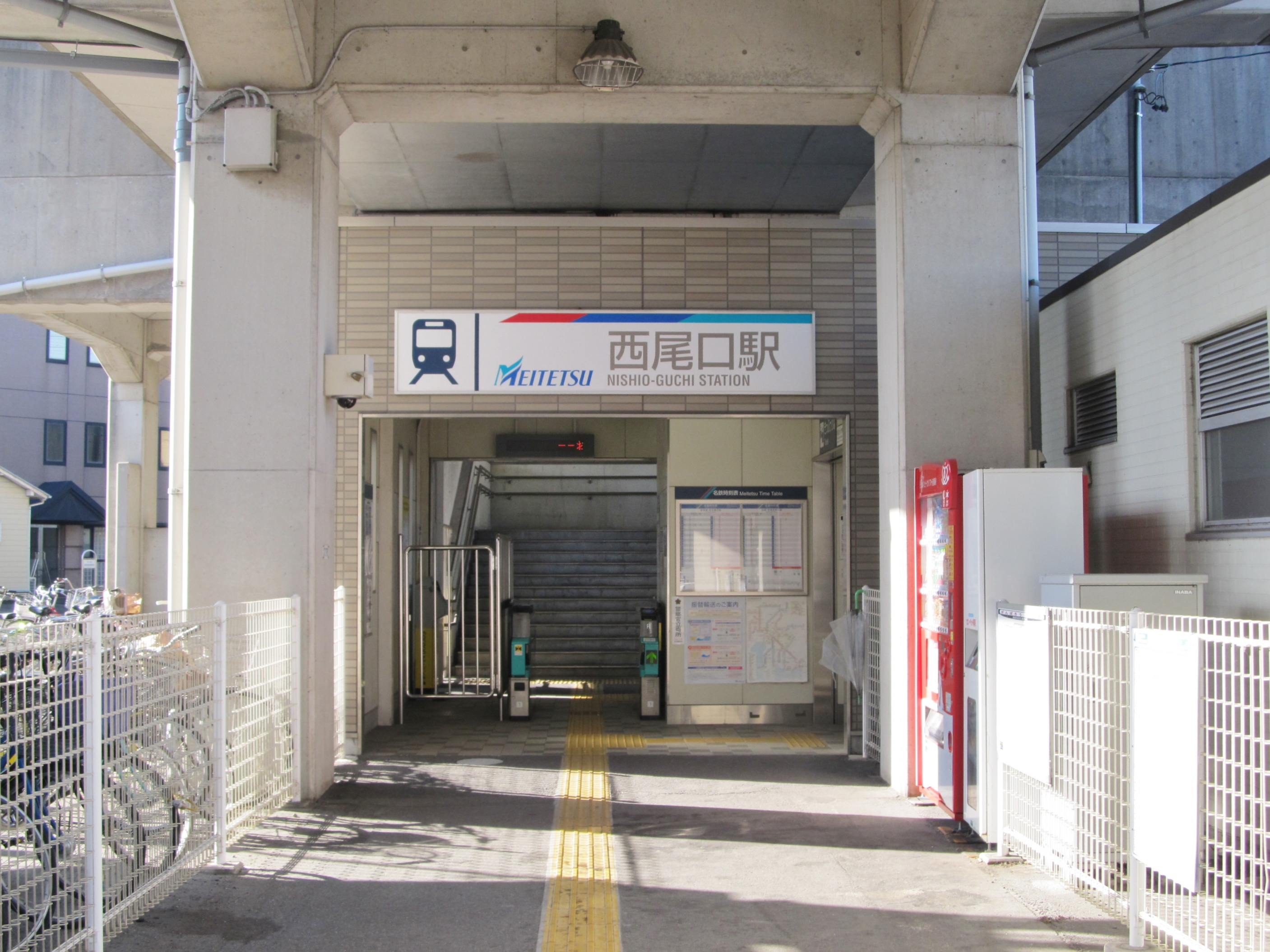 Nagoya Railroad Nishio Line Nishio-guchi Station Ticket Gate